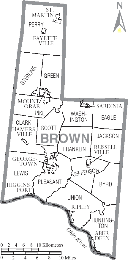 Map of Brown County, Ohio, United States with township and municipal boundaries